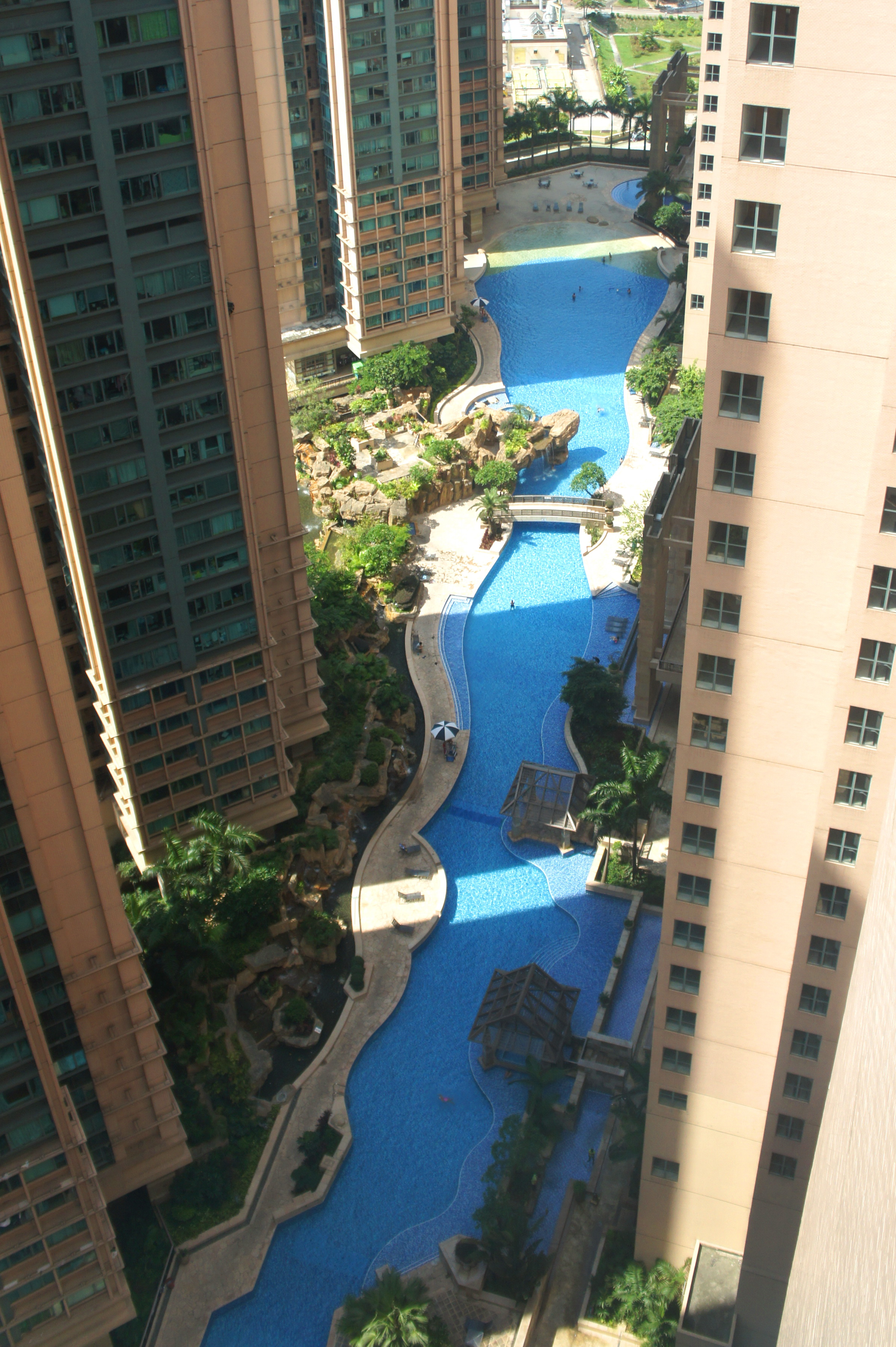 The 200-meter swimming pool in Rambler Crest, Hong Kong.